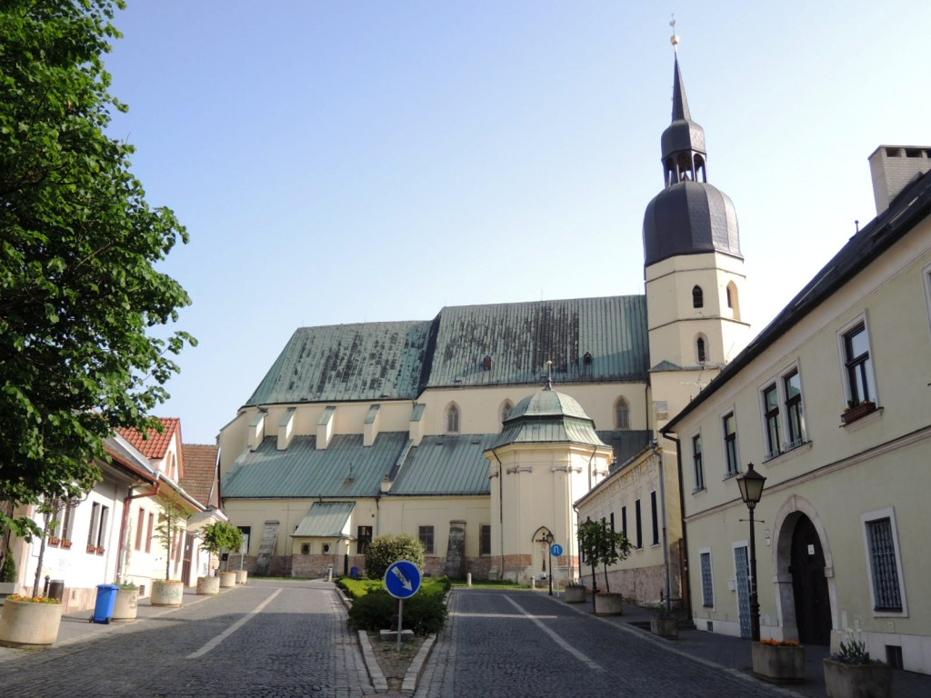 Trnava St Nicholas from Jeruzalemska (from the north)